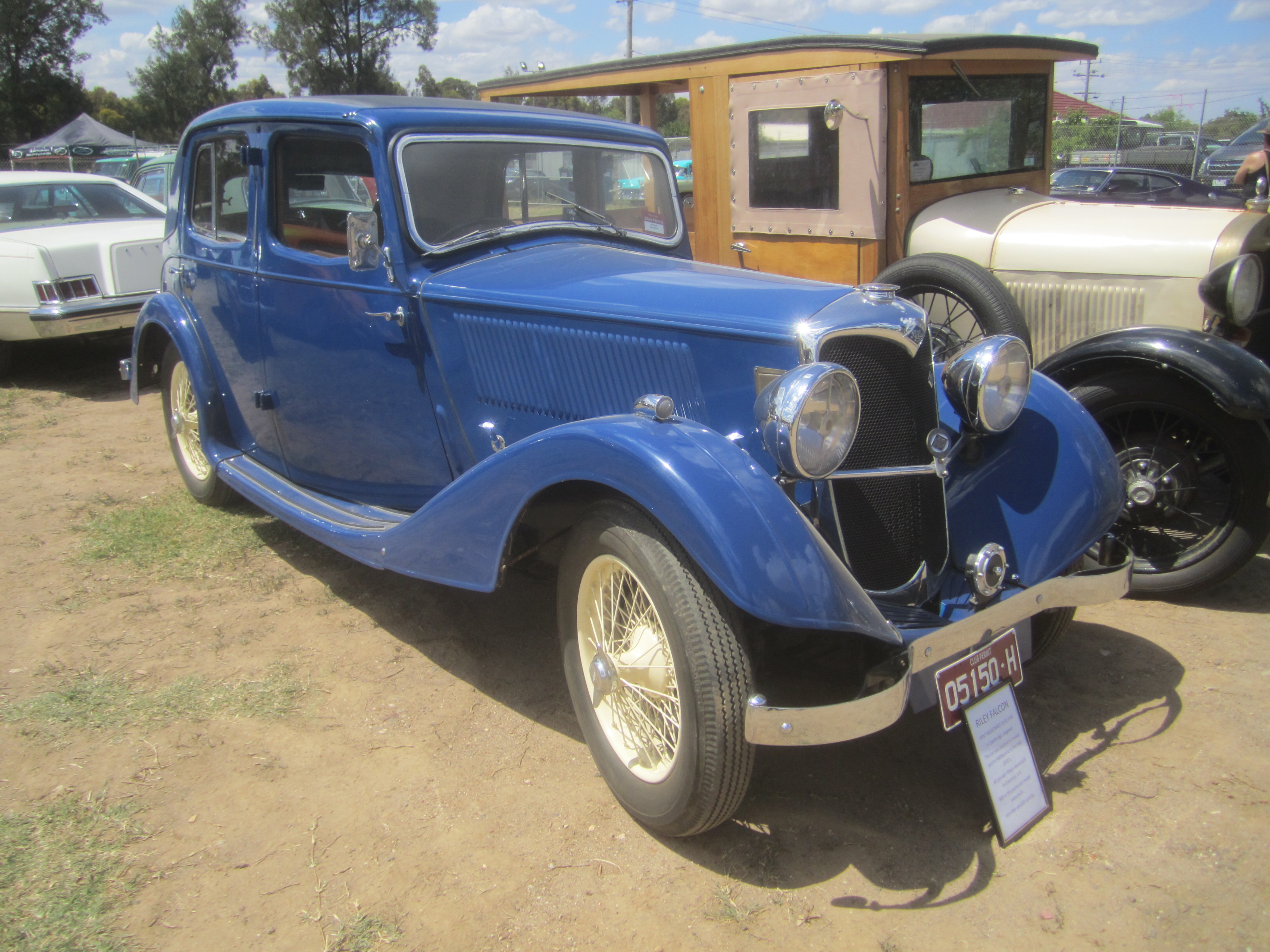 Riley 12/4 Falcon Saloon 1935 The Falcon was the first model to be launched on the new 12/4 chassis, with its neat swept tail and comfortable interior it was a more conservative design than the sporty Kestrel The Falcon was relaunched on the new 1½Litre chassis for 1936 with the new Briggs Steel Body. It was slowly replaced by the Adelphi as the customers favourite Saloon. Engine; 55hp 1496 4 cyl OHV